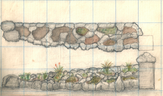 Design by Algernon Thomas for a rock garden at Auckland Grammar School, about 1916. Other information Private collection